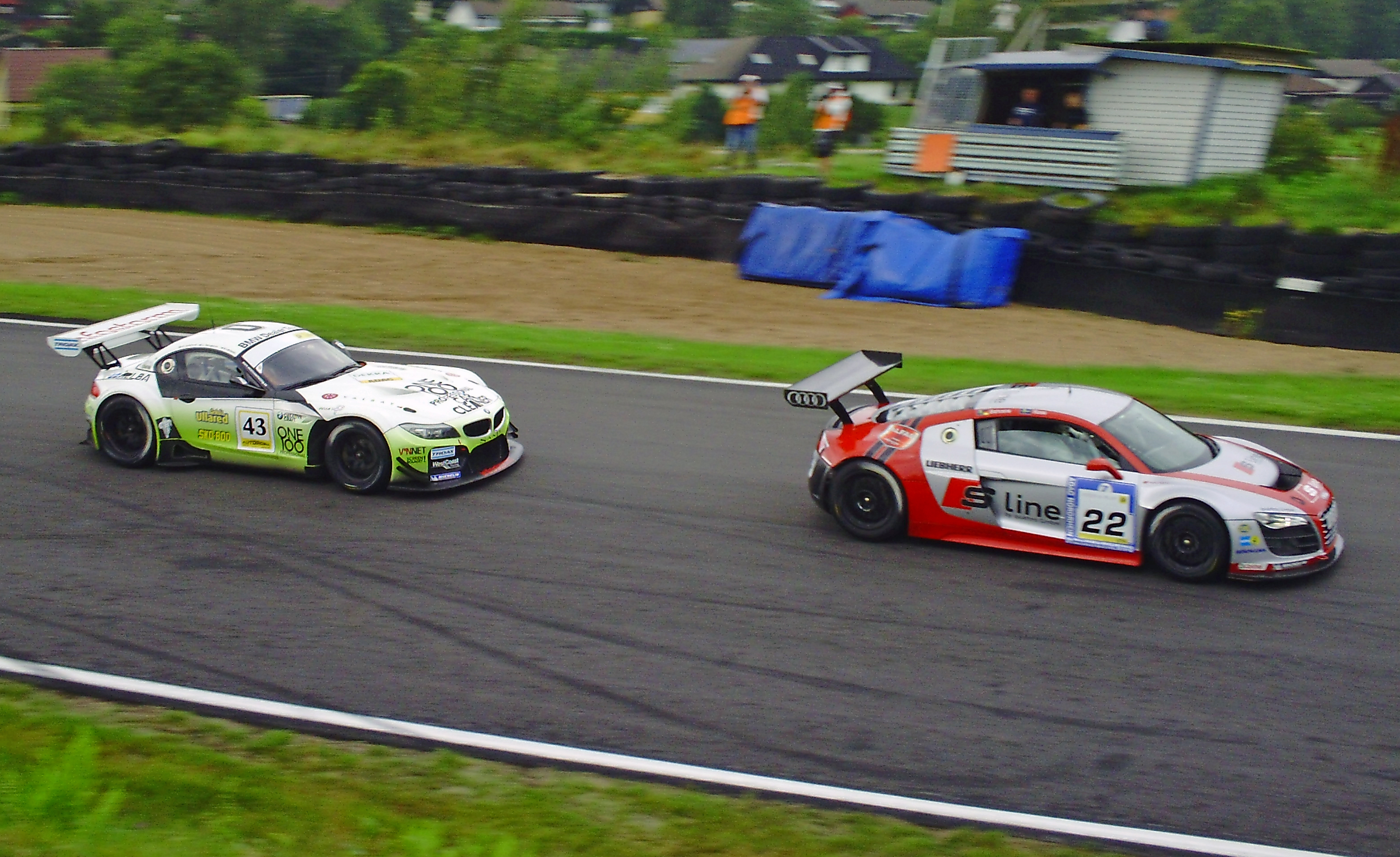 A Audi R8 Le Mans GT3 driven by Erik Behrens and Daniel Roos for ALFAB Racing, followed by a BMW Z4 GT3 driven by Fredrik Larsson and Fredrik Lestrup for WestCoast Racing in Swedish GT Series at Falkenbergs Motorbana, 2011